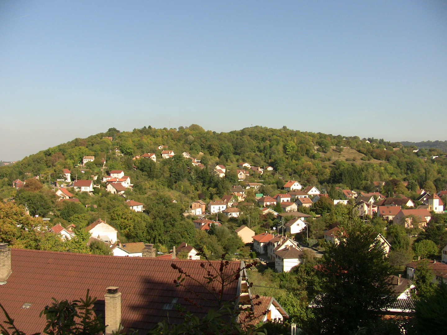 The area of Chaudanne, located in Besançon (Doubs, France)